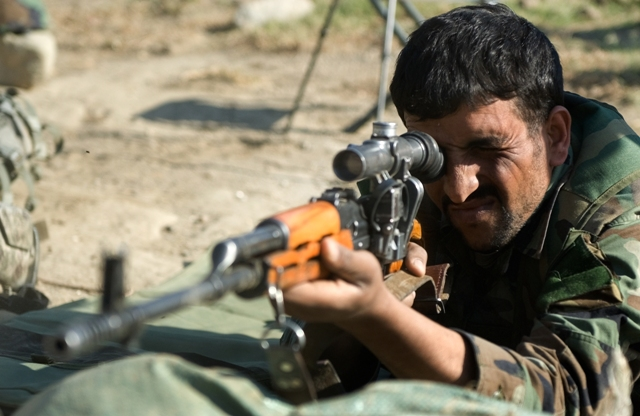 An Afghan National Army soldier practices aiming his SVD-137 Dragunov sniper rifle PSL designated marksman rifle during a U.S. Army hosted sniper training class at Combat Outpost Honaker-Miracle, in Afghanistan's Kunar province, Nov. 1, 2009. Training classes such as this one hope to further develop the Afghan National Army, as they continue to take the lead in their nation's security. (U.S. Army Photo by Sgt. Matthew Moeller/Released)